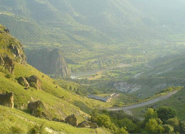 River Dzoraget